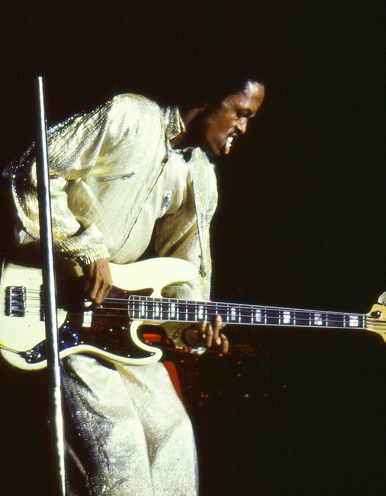 Earth Wind & Fire's bass guitarist, Verdine White performing in the Netherlands, 1982